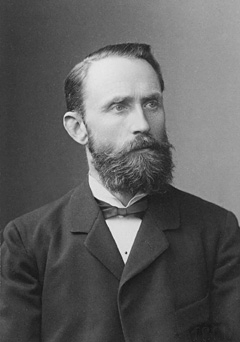 Hermann Fehling (1847–1925), German gynaecologist